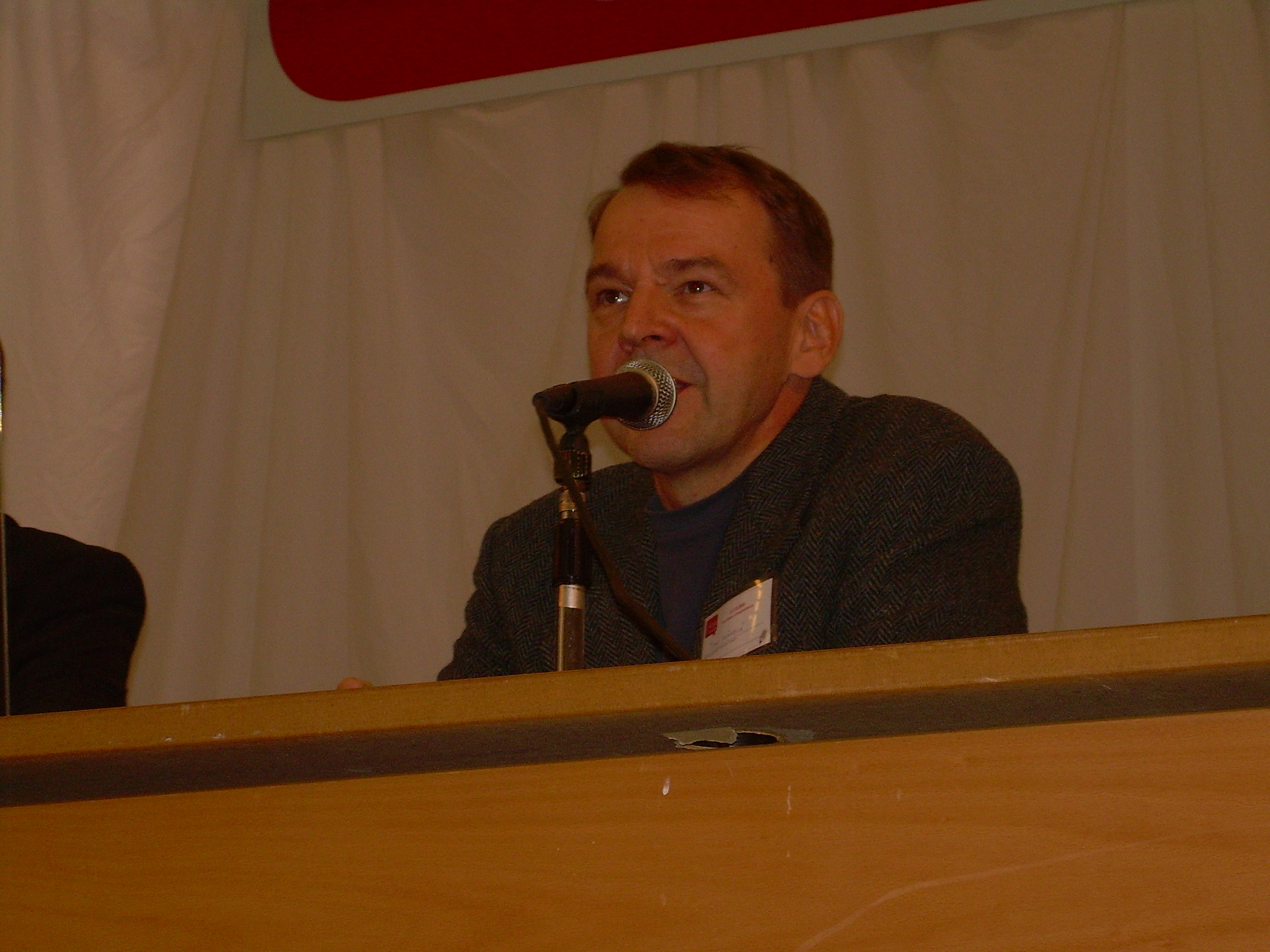 Finnish cartoonist Timo Mäkelä at the Turku International Book Fair.